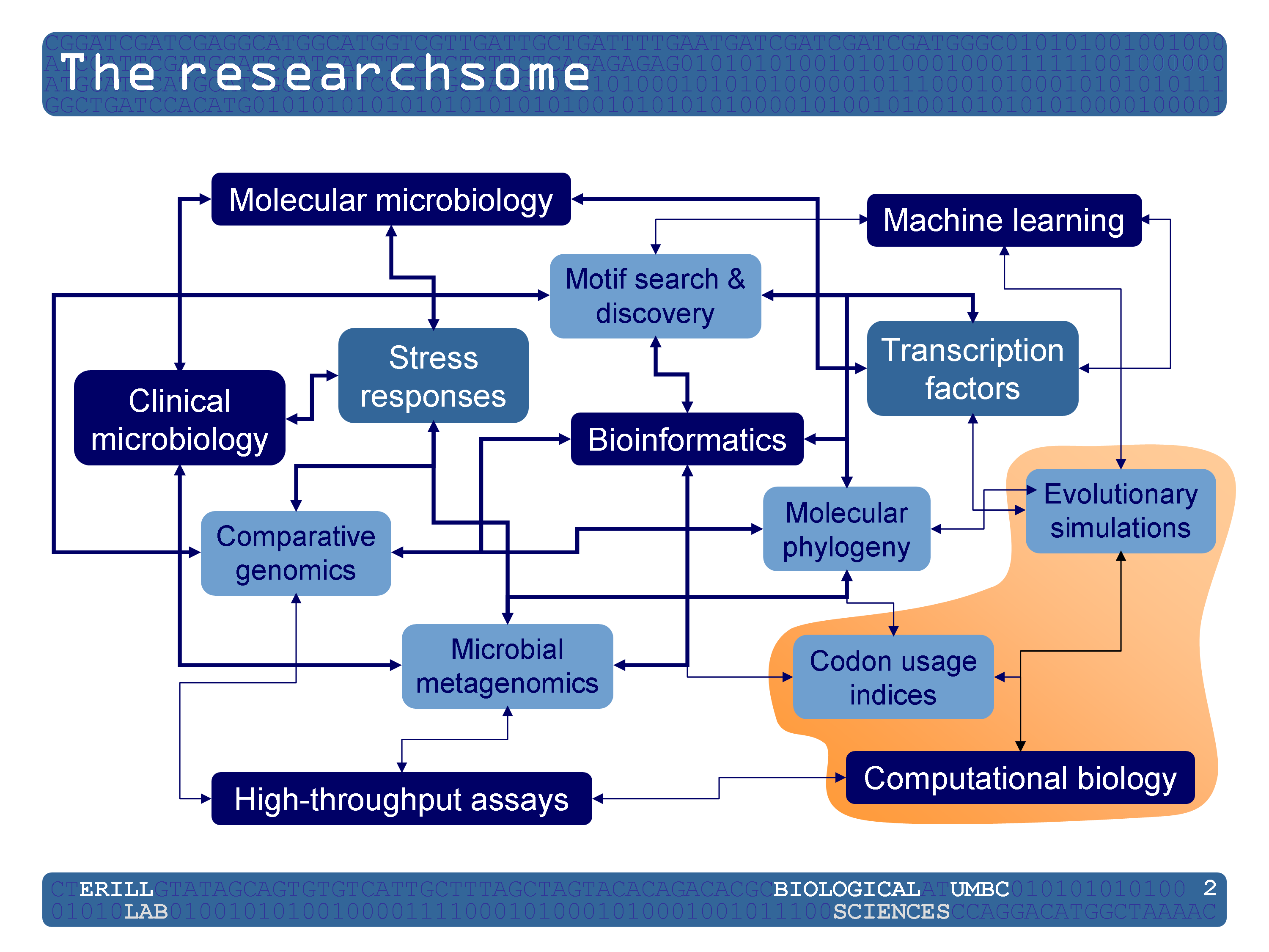 Original researchsome slide by Ivan Erill, used publicly at the Marseilles EBM meeting in September 2011. Reproduction authorized explicitly by author.